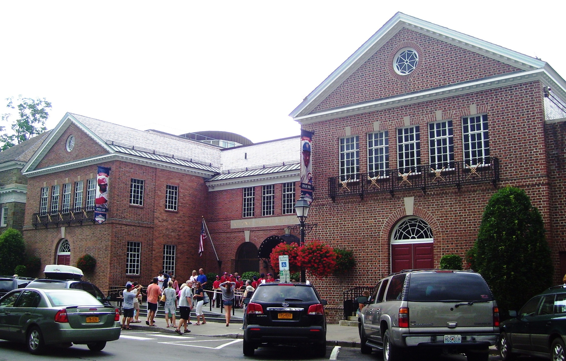 The National Baseball Hall of Fame and Museum at 25 Main Street was built in 1939 in the neo-Classical revival style and has been expanded a number of times since then. It is a contributing property to the Cooperstown Historic District. (Source: [1])